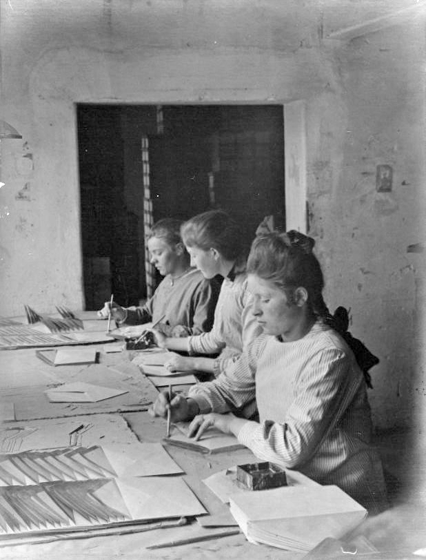 Beschrijving: In de enveloppenfabriek Bontamps te Venlo worden enveloppen met de hand gegegomd. Dit handgommen - met een productie van 6000 tot 7000 enveloppen per dag - wordt alleen gedaan bij kleine partijen en incourante maten Datum: Circa 1919 Vervaardiger: J.D. Filarski Formaat: 23.5 x 17.5 cm Bestanddeelnummer: 2.24.03_2255_256-1260 Fotocollectie: Arbeidsinspectie Auteursrechten: Nationaal Archief Voor meer informatie over het Nationaal Archief: Voor meer foto's uit deze en andere collecties, bezoek onze Beeldbank